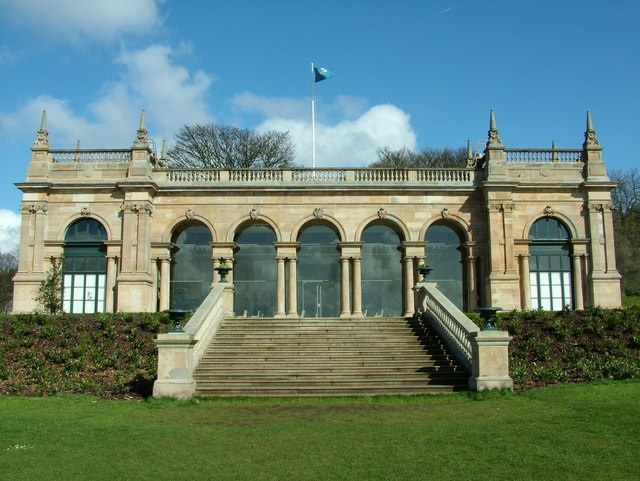 Baxter Park Pavilion Baxter Park Pavilion Dundee, designed by G H Stokes in 1863. The flag that's flying is the Dundee vase